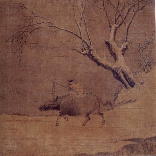 Ox and herdboys (絹本著色帰牧図, kenpon choshoku kibokuzu) or Riding on an ox (騎牛, kigyū). Hanging scroll, 24.2 cm x 23.8 cm. Color on silk. Located at Yamato Bunkakan, Nara, Japan.